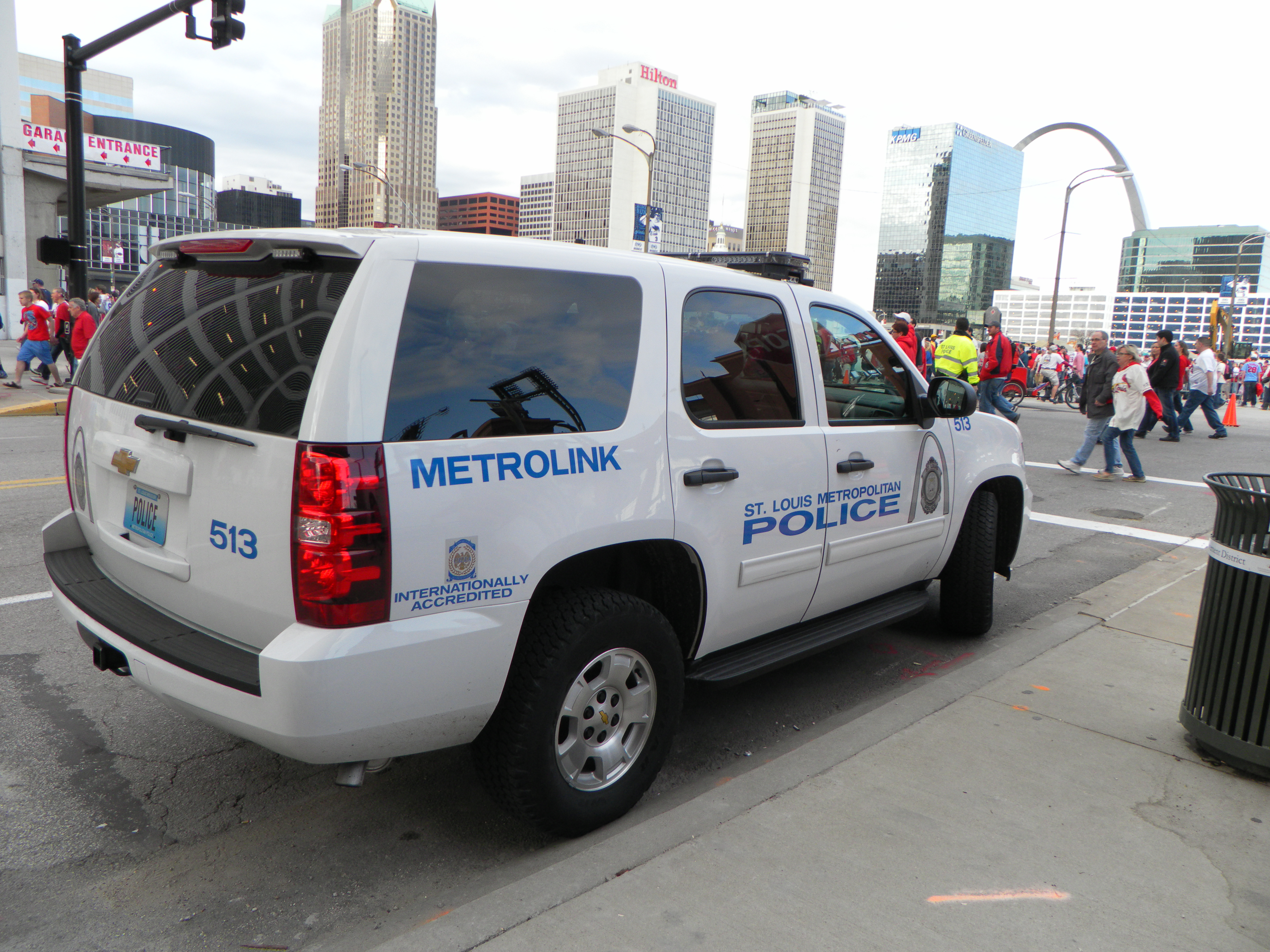 April 13, 2013 MetroLink is a light-rail transit system in the STL metro region with a station right across the street from Busch Stadium.